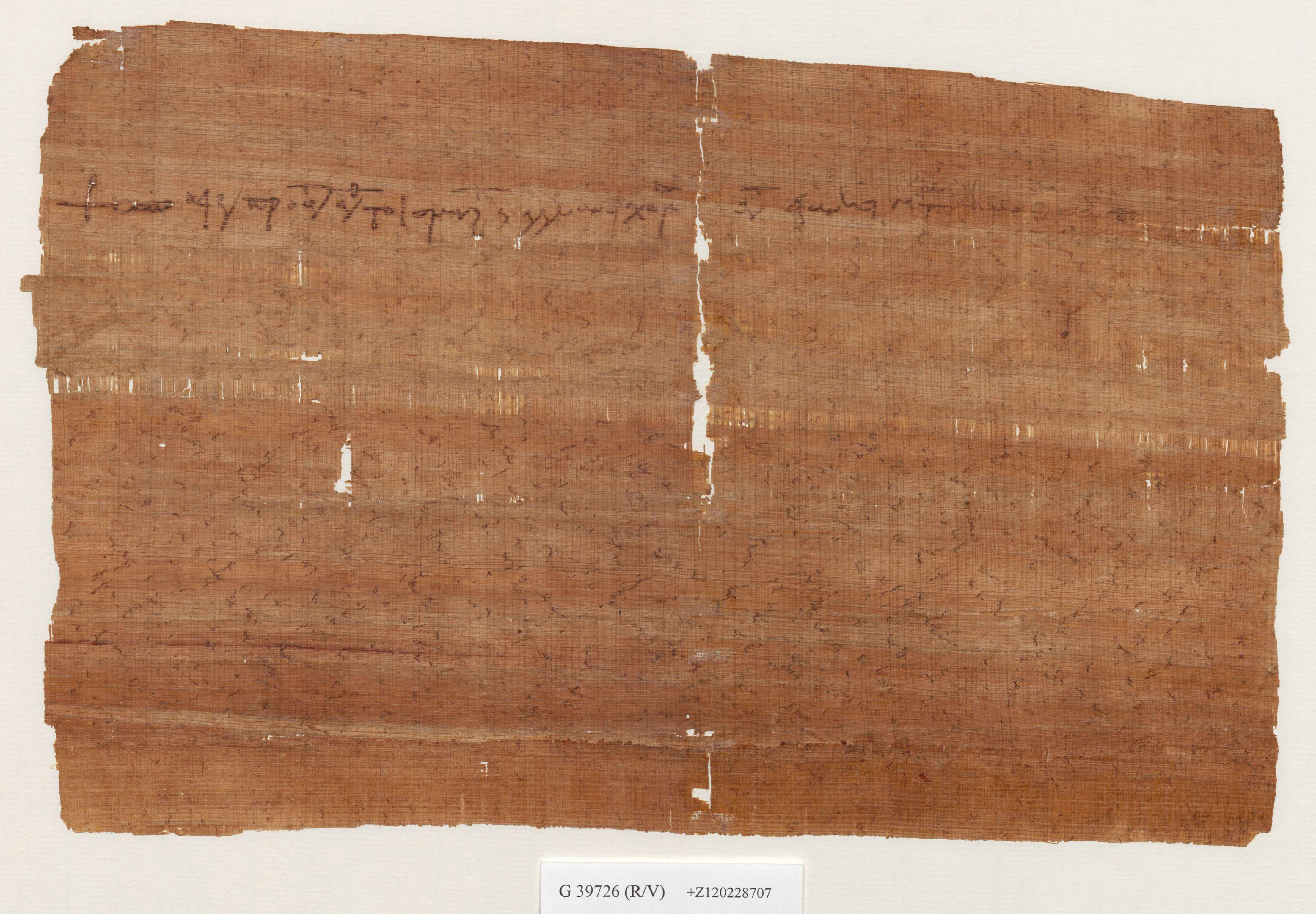 PERF 558, verso from the Katalog der Papyrussammlung, Österreichische Nationalbibliothek